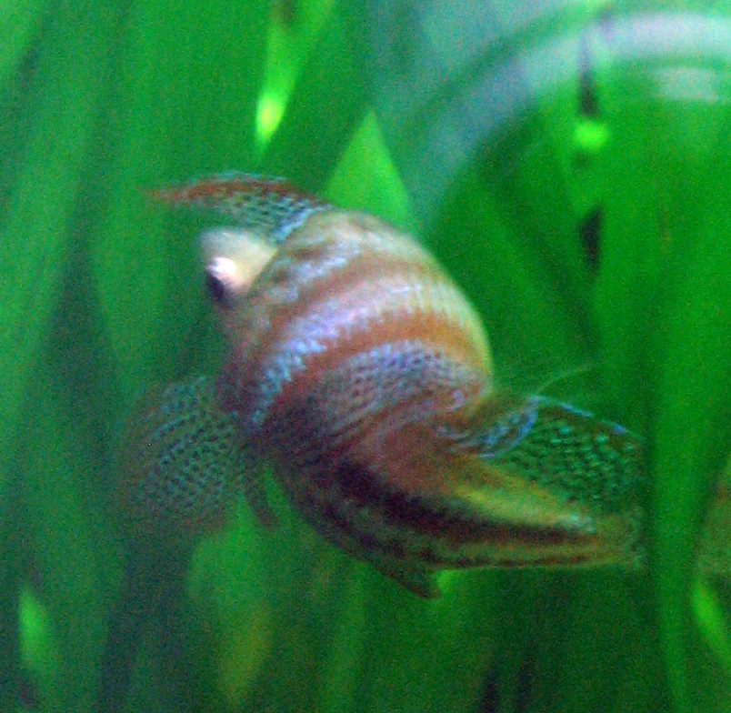 A spawning pair of Pygmy gourami (Trichopsis pumila)